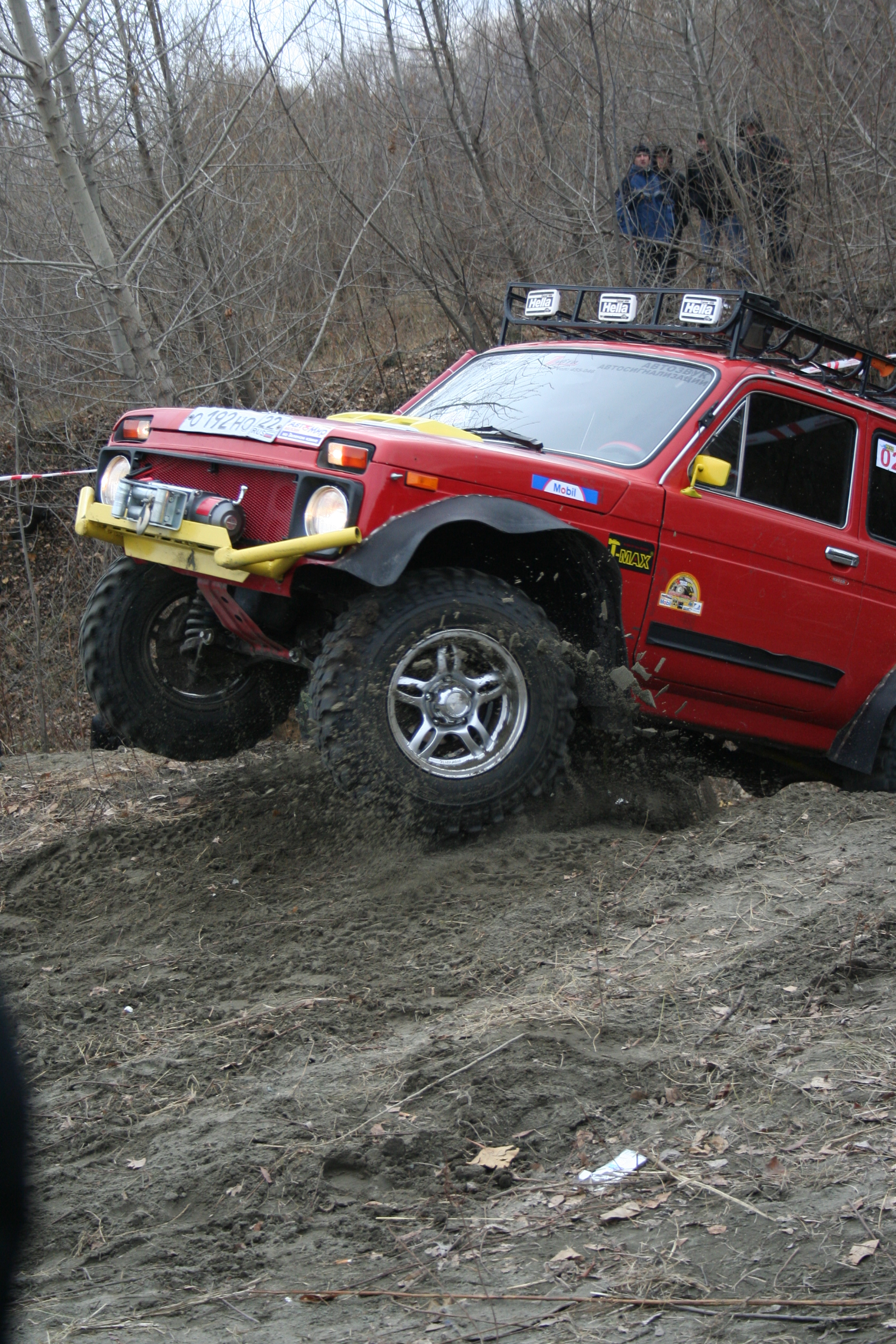 Lada Niva on off-road competition